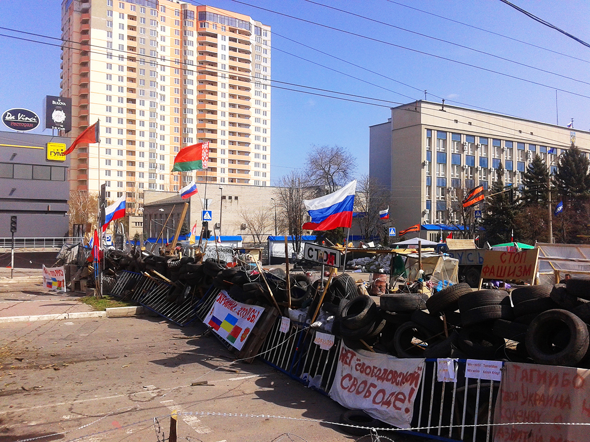 The barricades of the secessionists in Luhansk (Ukraine)